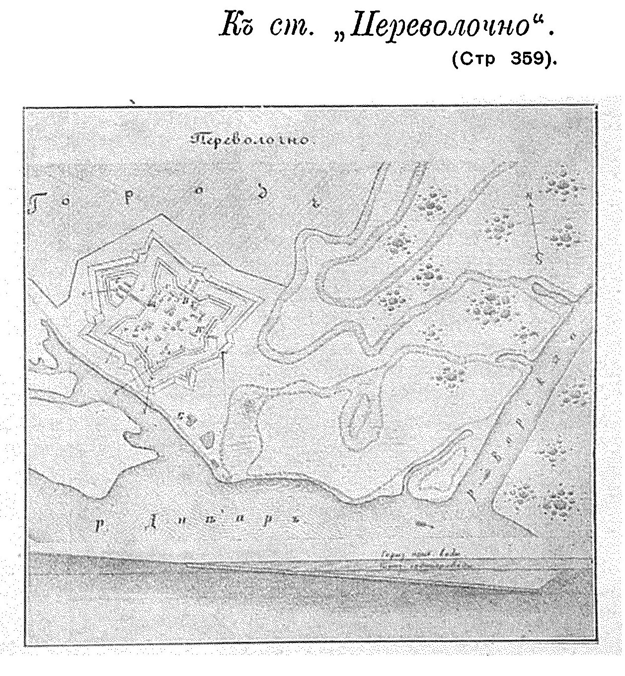 Perevolochna (Ukrainian: Переволочна) was a settlement in Kobeliaky Raion (district) of Poltava Oblast (province) of Ukraine close to Svitlohirske. It was situated at the bank of the Dnepr, where a ford enabled people to cross the river. It existed until the Dniprodzerzhynsk reservoir was built in the middle of the 1960s.